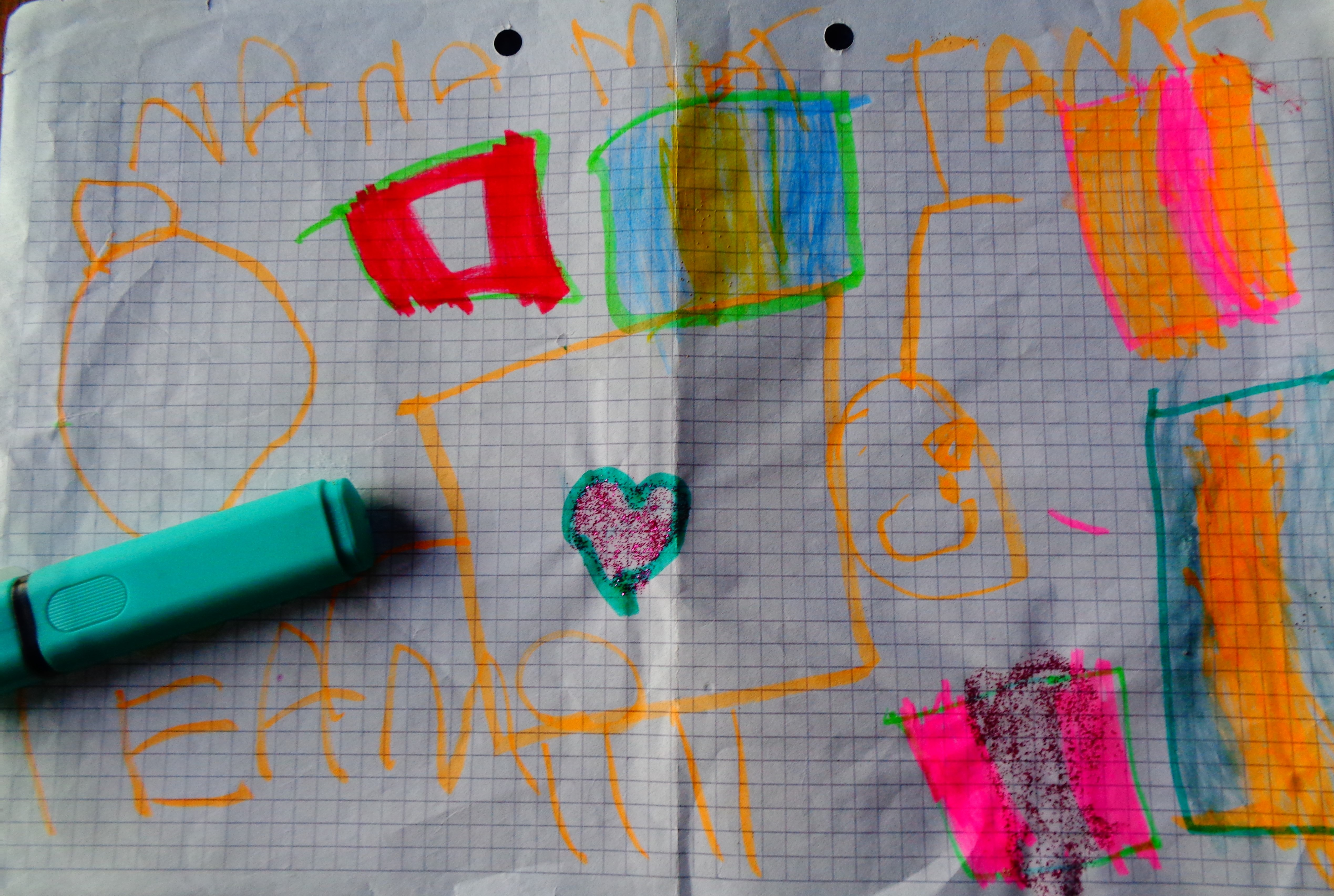 a four-year-old girl´s drawing of her little dog